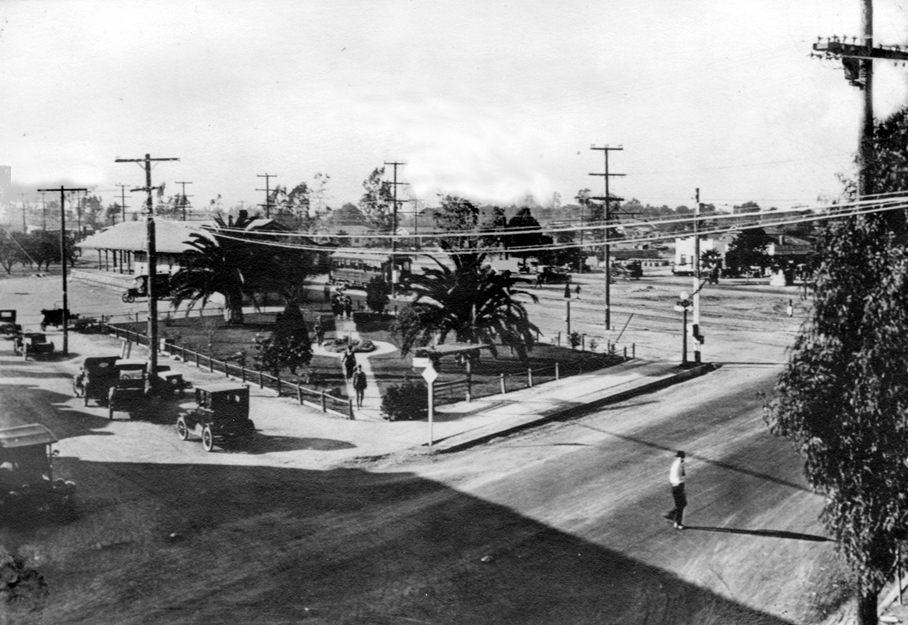 The North Hollywood Pacific Electric Car Station is located at the intersection of Chandler and Lankershim Boulevards. It was part of a very efficient rail system that was dismantled due to competition from the automobile in 1952, though the station itself is still standing. This picture probably dates from 1919. Black and white photographic reproduction. 6 x 9 in.